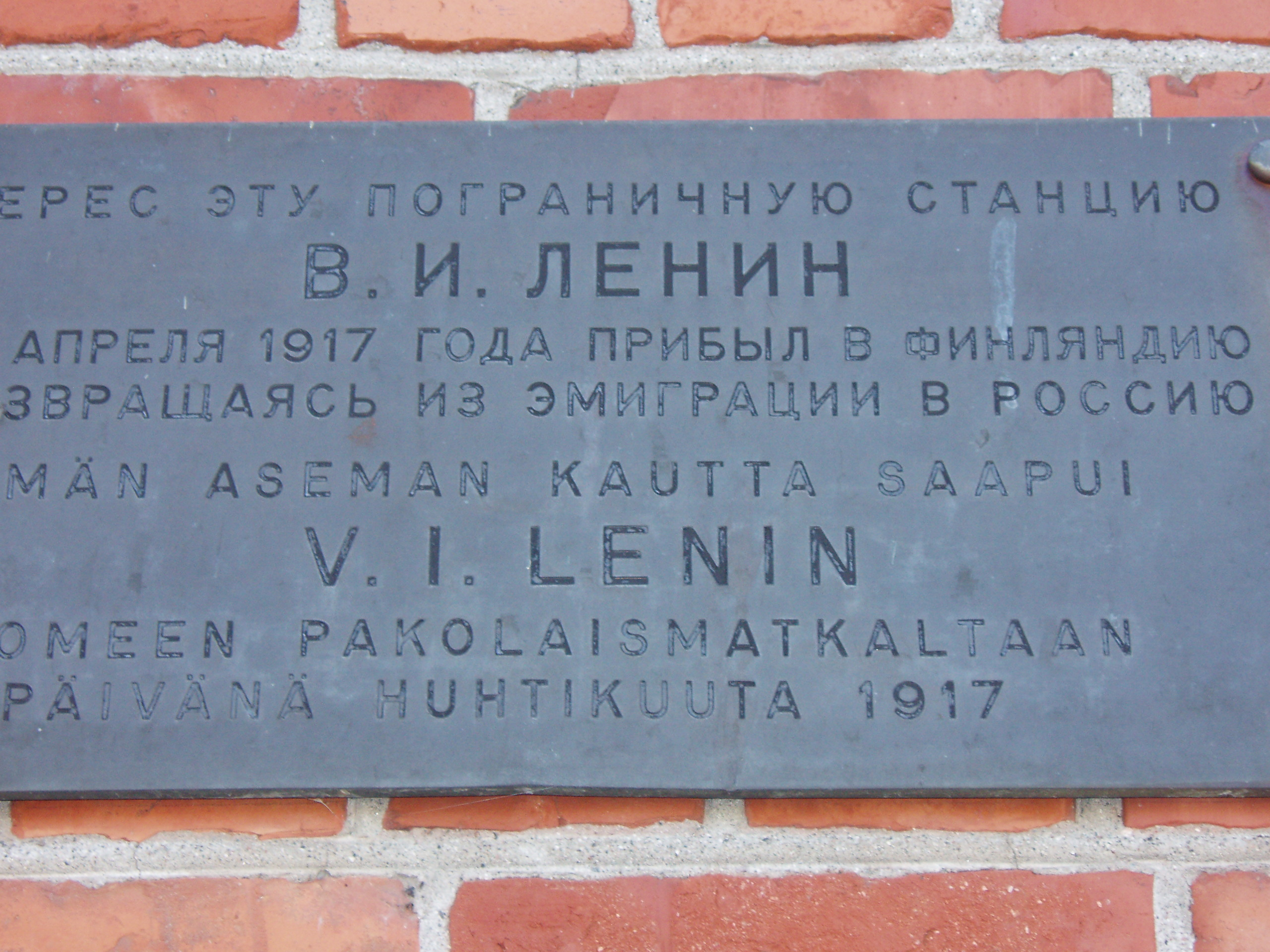 A memory plaque of Lenin's travel to Russia via Tornio in 1917, located at Tornio railway station